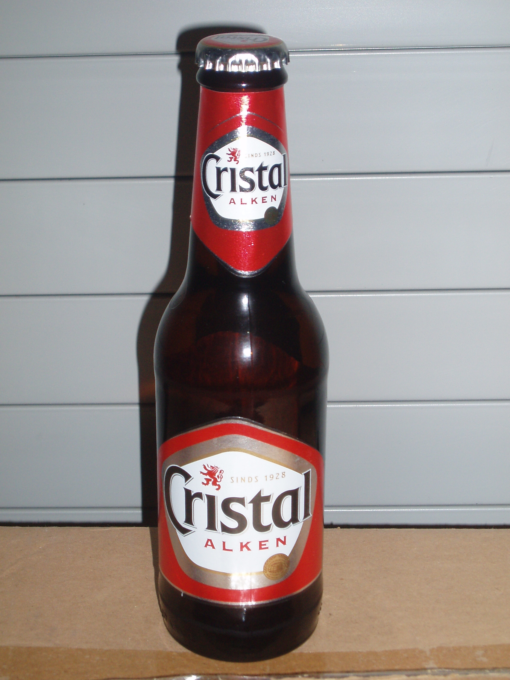 Cristal Alken beer